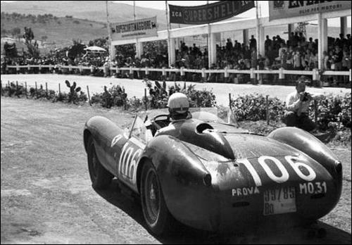 Entry #106 (and the WINNER) in the Targa Florio on 11 May 1958 was the 1958 Ferrari 250 Testa Rossa s/n 0724TR, driven by Luigi Musso and Olivier Gendebien.